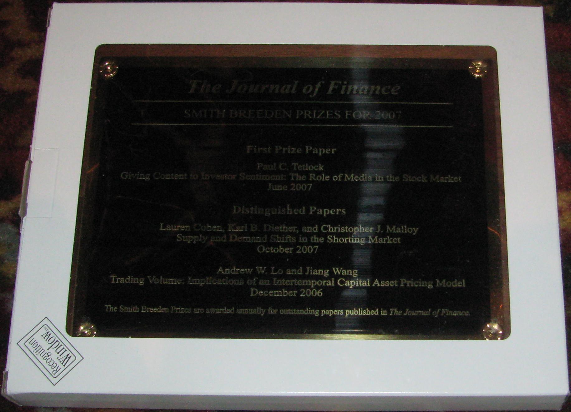 Smith Breeden Prize plaque in New Orleans, Louisiana.